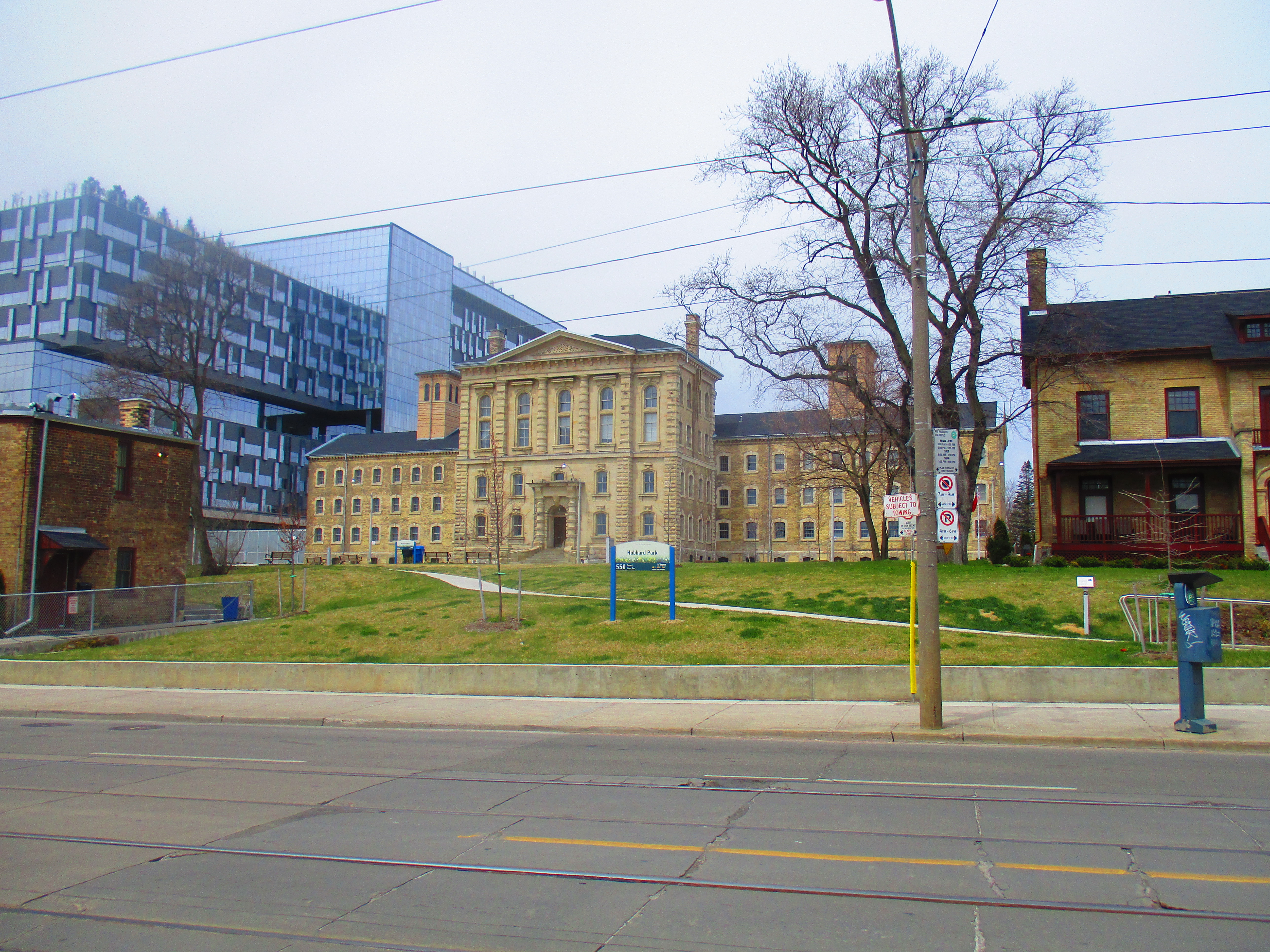 Across Gerrard from the Don Jail, 2016 04 28 (2).JPG